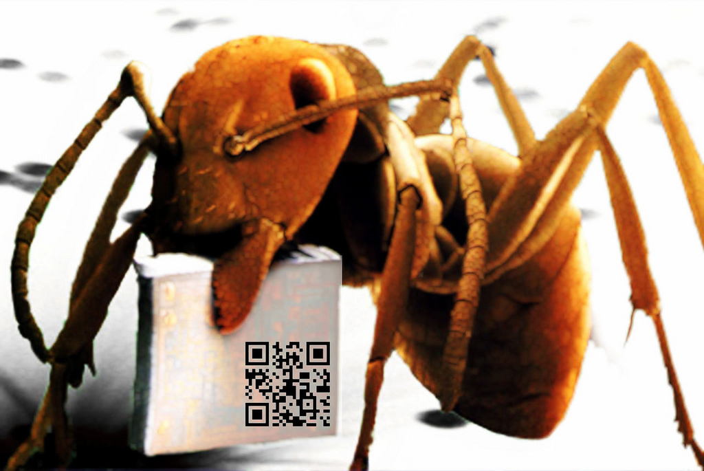 first oil painting with a text QR code.